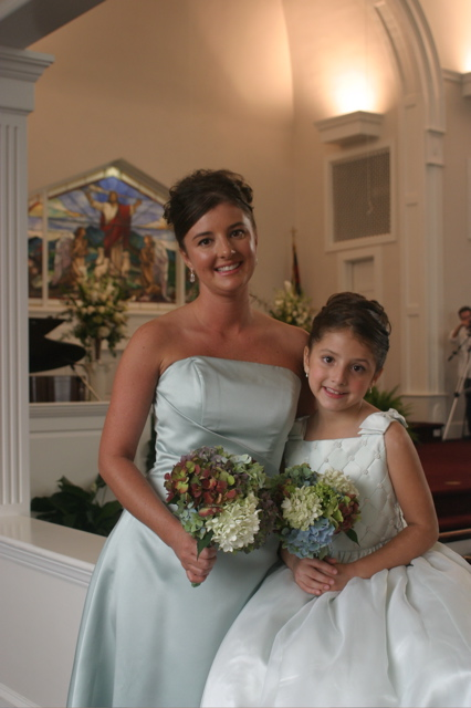 Bridesmaid and junior bridesmaid at a wedding in North Carolina, U.S.A.